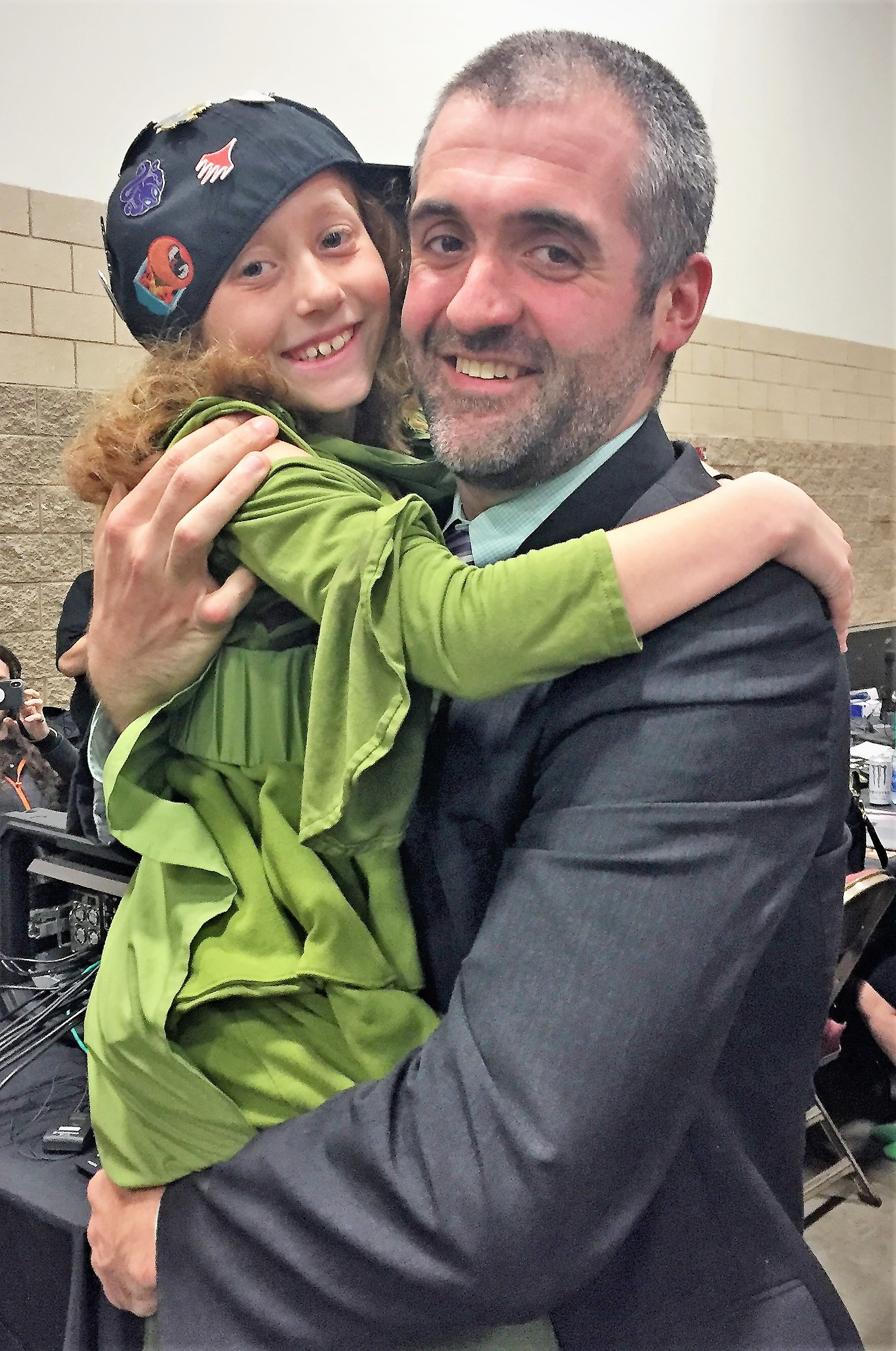 Competitive Magic: the Gathering players Dana Fischer and William "Huey" Jensen at MagicFest Dallas 2019.